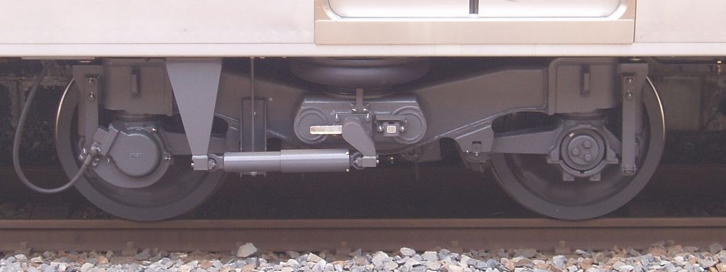 Bogie Truck TR255 of East Japan Railway type E531. 東日本旅客鉄道 E531系の付随台車 TR255 2005.07.21 Photo by Cassiopeia_sweet.